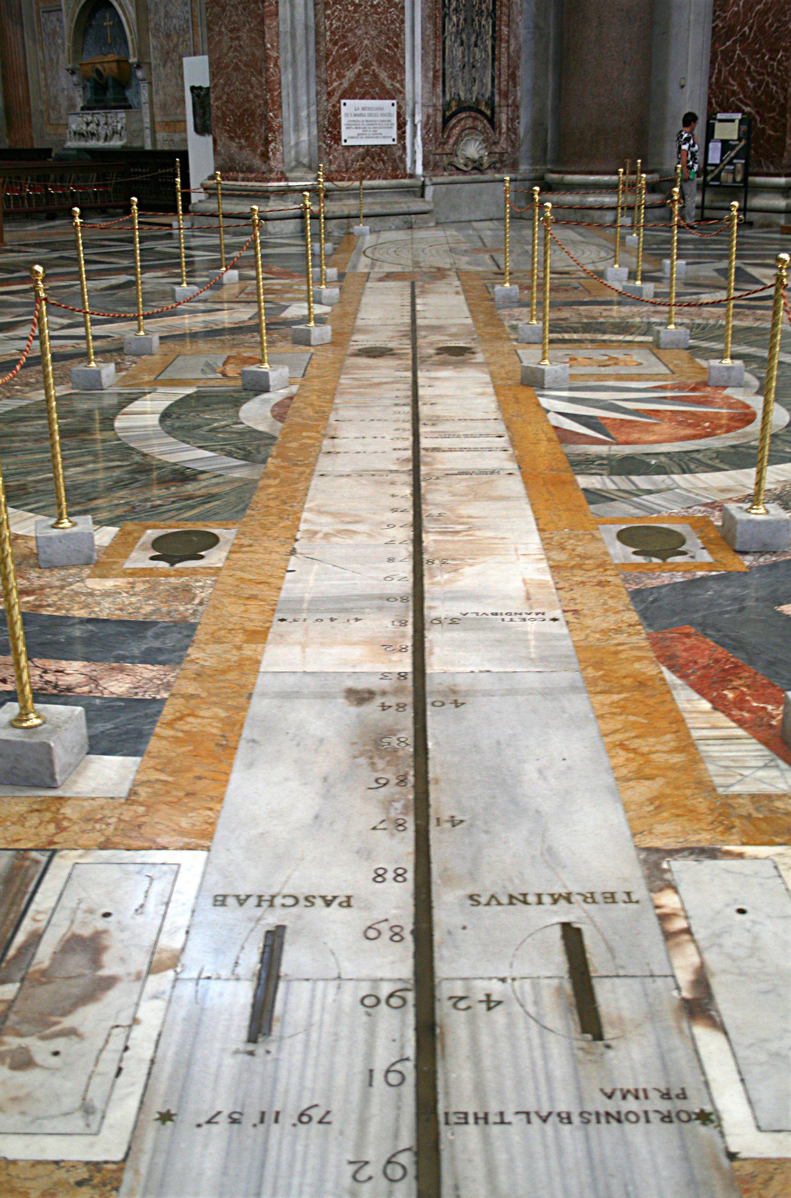 Meridian solar line of the Basilica Santa Maria degli Angeli e dei Martiri in Rome built by Francesco Bianchini (1702).